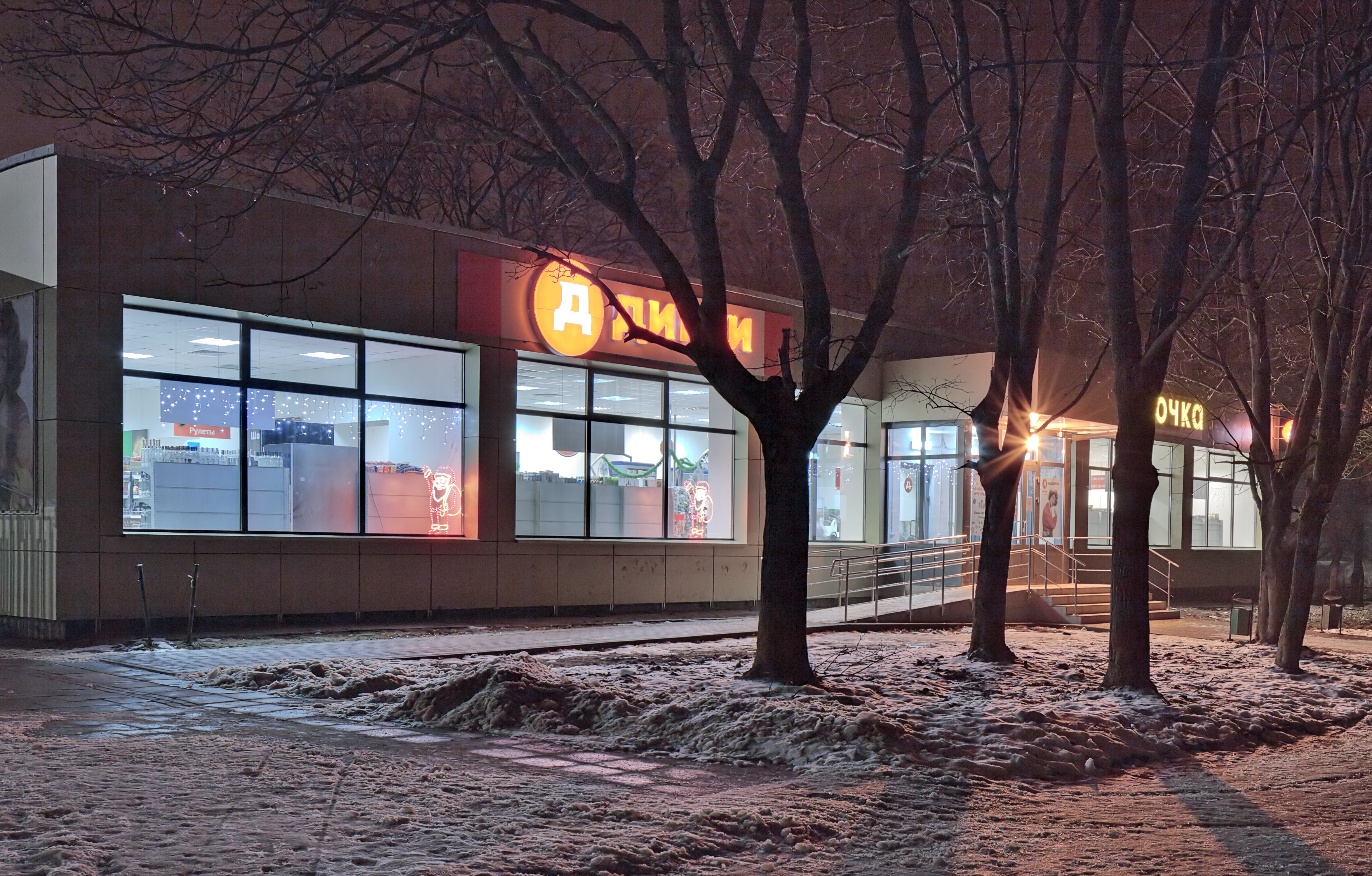 The shop where cosmonauts buy the food! Russia, Star City, the administrative and commercial building